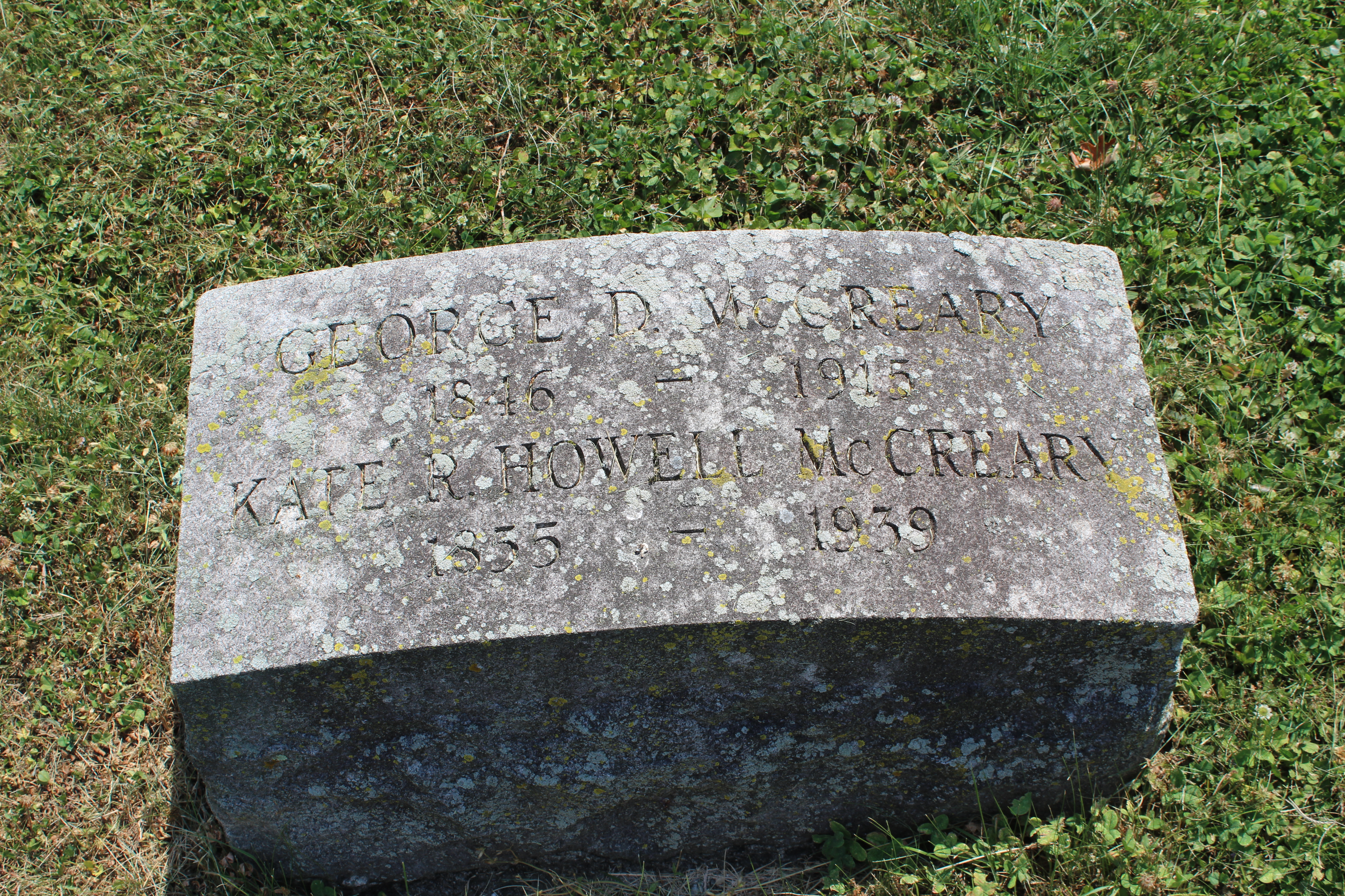 George D. McCreary Tombstone in Laurel Hill Cemetery. Photo taken July 2020.